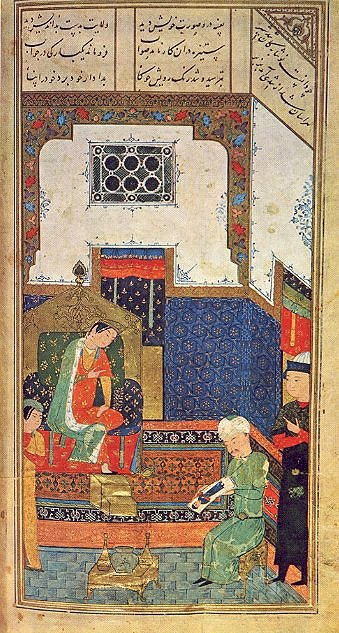 15th century Persian miniature painting from Herat depicting Iskander, the Persian name for Alexander the Great, who was venerated by Muslims as Dhul-Qarnayn.